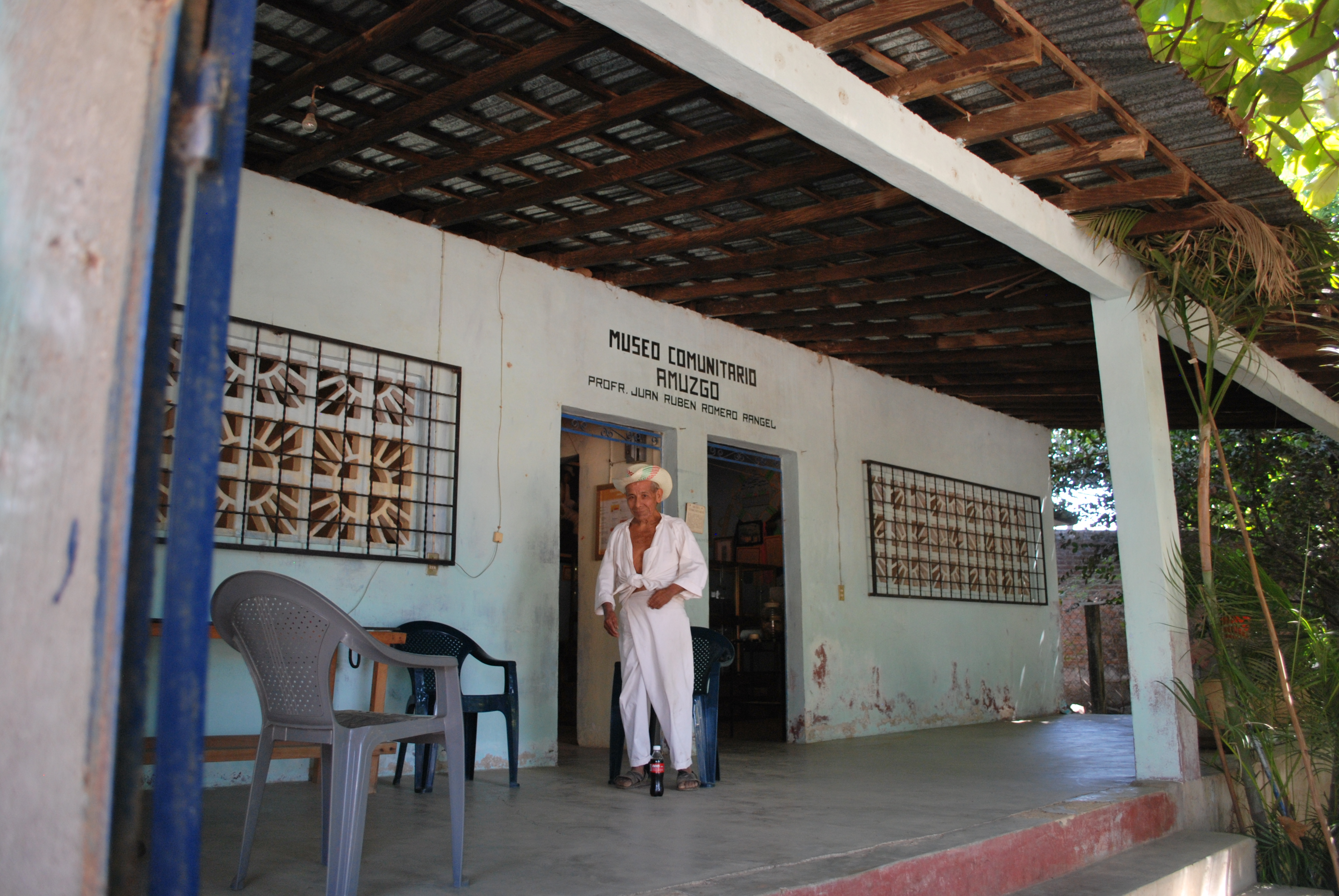 Facade of the Xochistlahuaca Community Museum